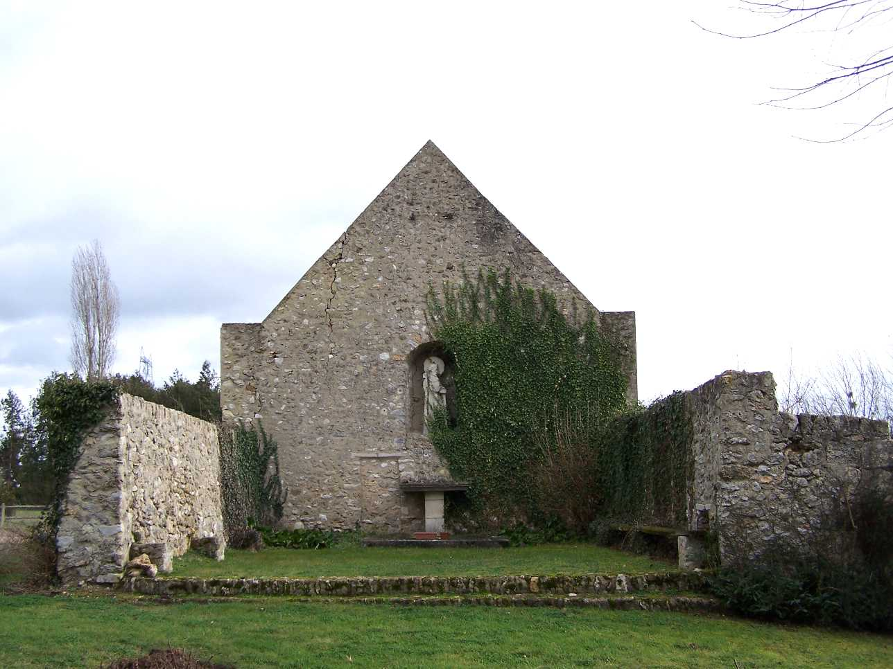 Ruins of the chapel of la Bardelle in Vicq (Yvelines, France)